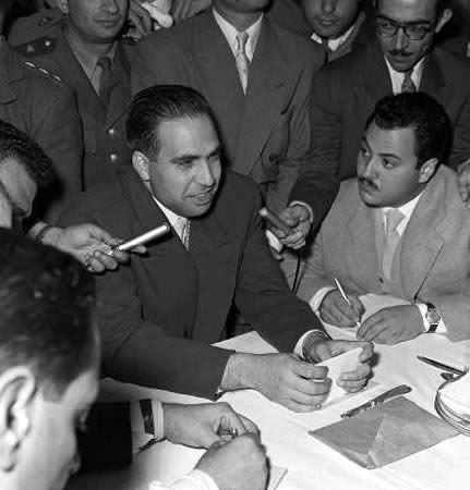 Abdel Hamid Sarraj giving a press conference in Cairo